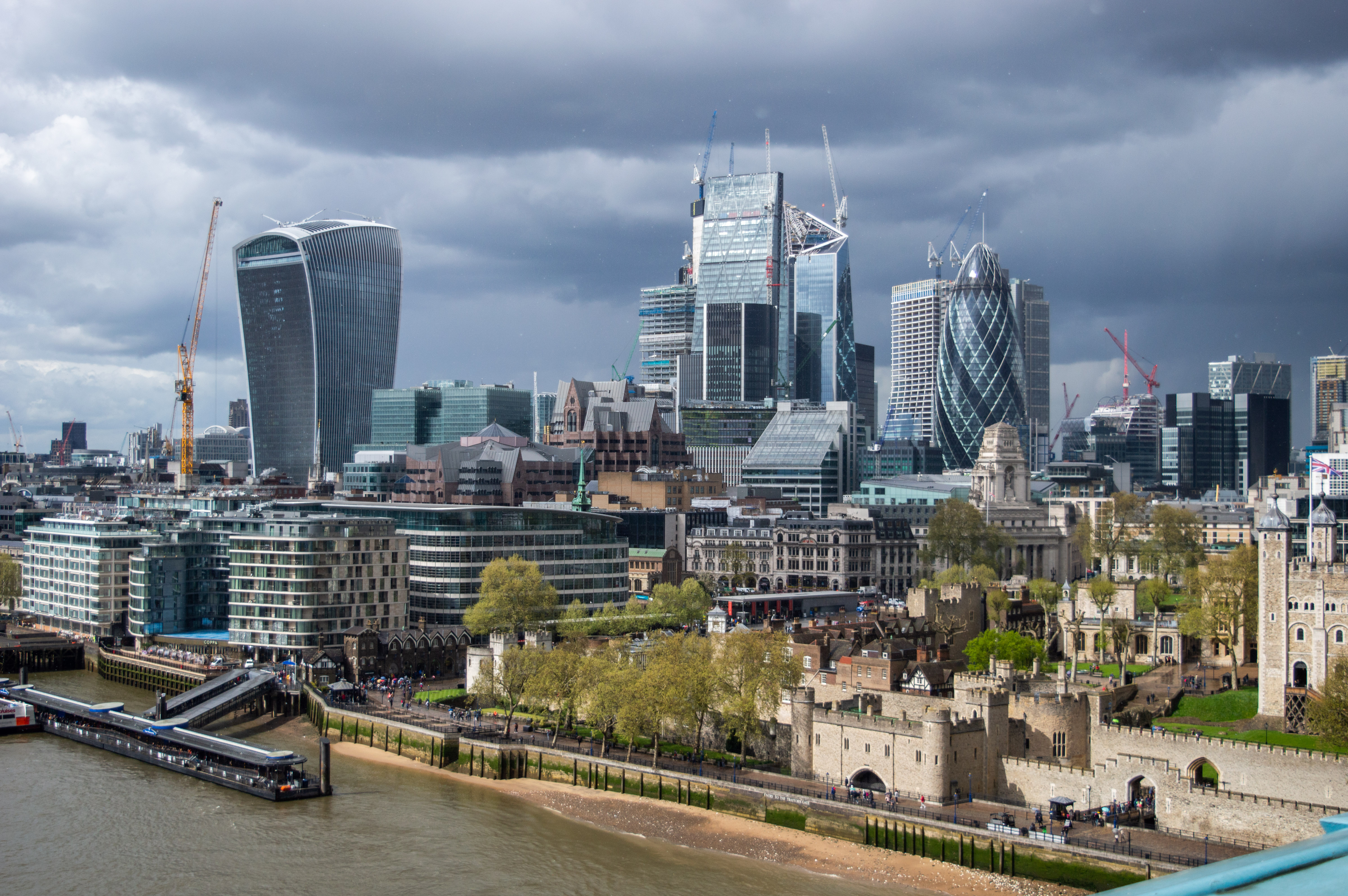 High-rise buildings of the City of London together with part of the Tower of London, seen from the west walkway of Tower Bridge. Buildings visible include 20 Fenchurch Street, Willis Building, 122 Leadenhall Street, The Scalpel (under construction), 30 St Mary Axe, and 100 Bishopgate (under construction).